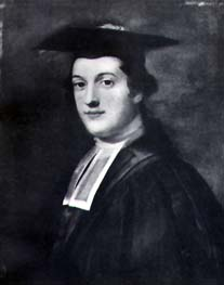 William Henry Cavendish-Bentinck, 3rd Duke of Portland (1738-1809)